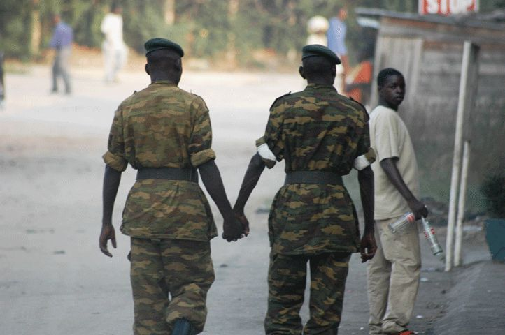 It is not unusual in many societies throughout east Africa for men to display their friendship for one another by holding hands in public. Two soldiers on patrol in the streets of Bujumbura, Burundi nonchalantly express their affection for one another.